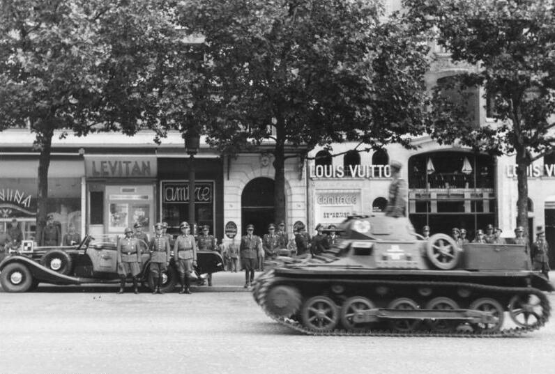 "Paris, France.- Wehrmacht parade, vehicles of Leibstandarte SS Adolf Hitler, Panzer I Ausf. B; PK [Propagandakompanie] 696"